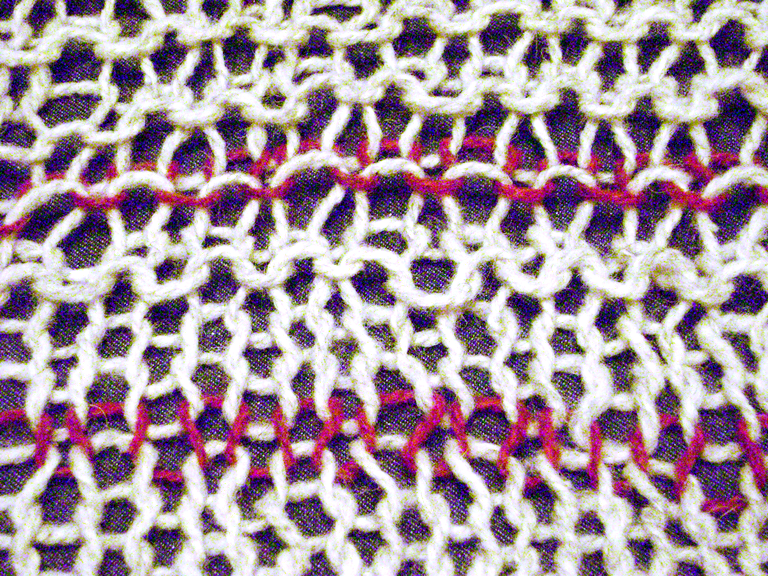 Knitted fabric illustrating the definition of a course. Two red courses are shown, the lower one being knitted in a stockinette stitch (top and bottom knitted), the upper one in garter stitch (bottom purled, top knitted). Flip side of Image:Knitting_red_courses_reverse_stockinette_garter.png.